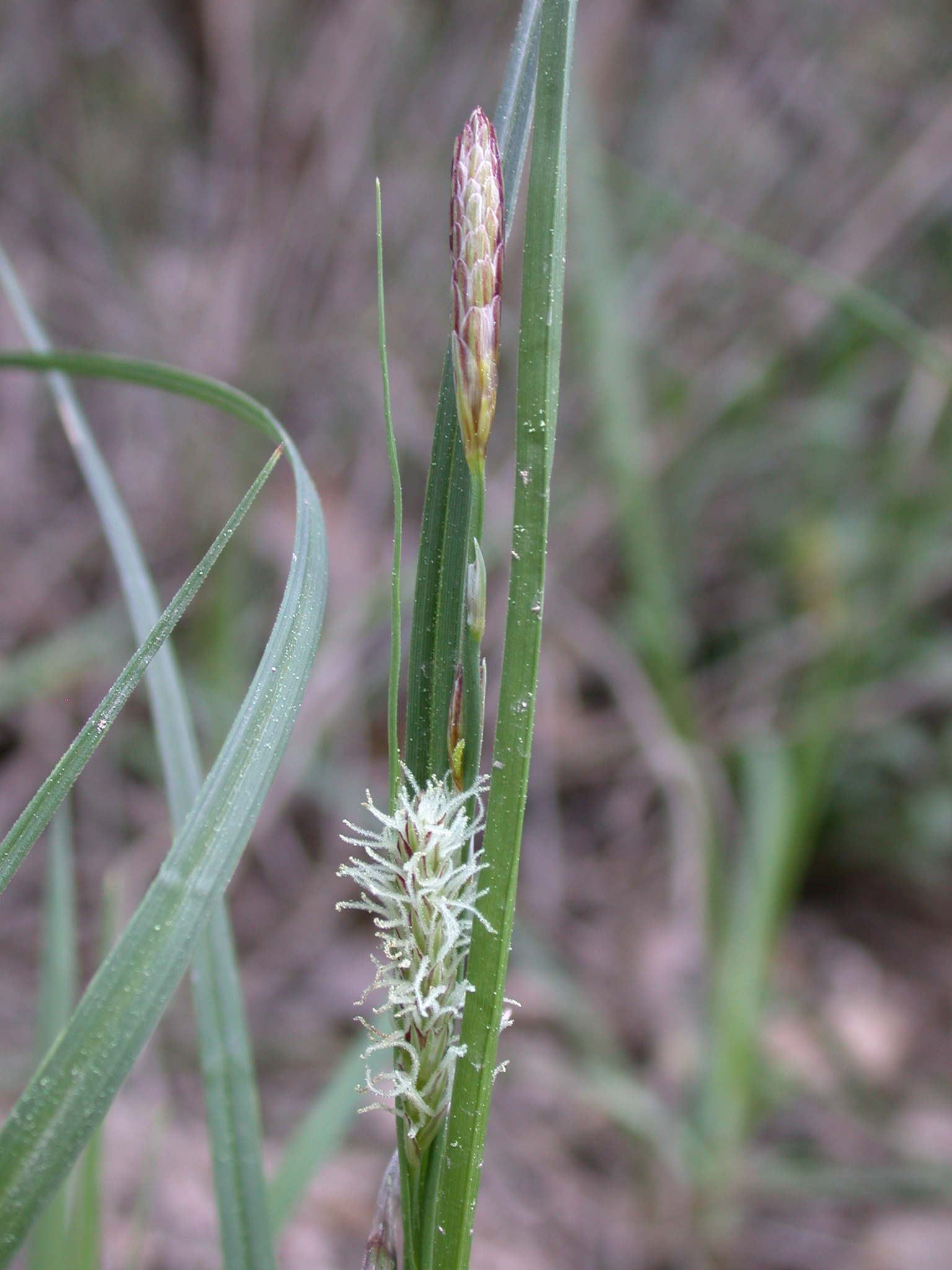 Carex flacca Schreb. (כריך אפרפר), Mount Carmel, Israel, March 2008.